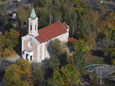 Csepel, Budapest, district XXI, Hungary, aerial photography